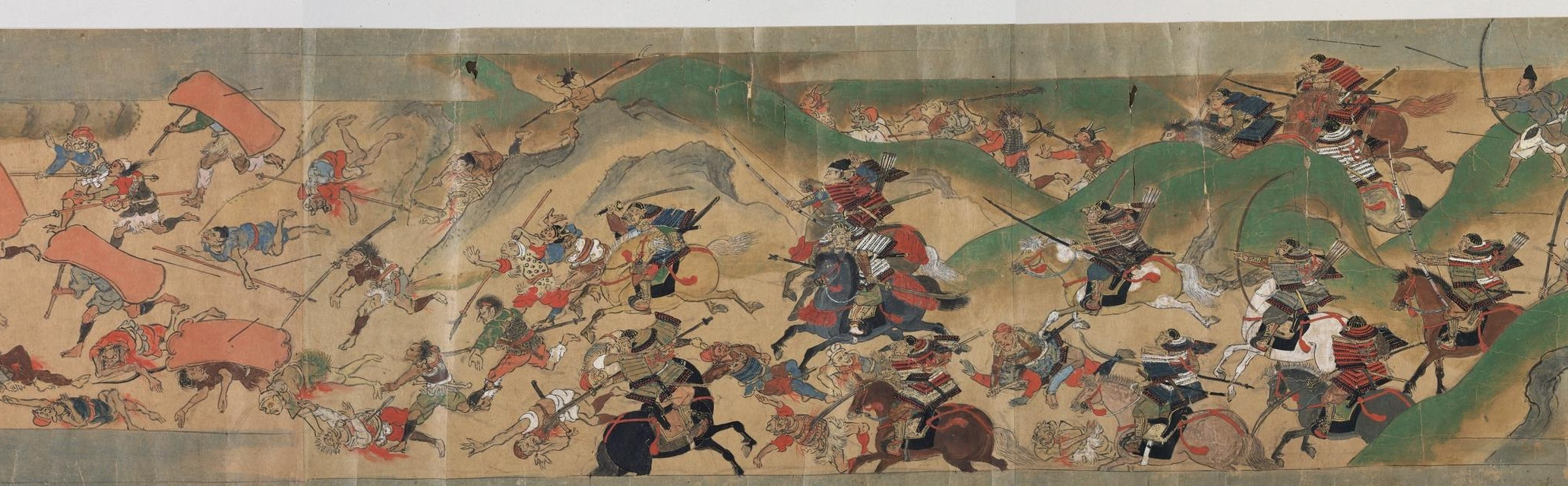 Kiyomizudera engi emaki - Scroll1 pic11